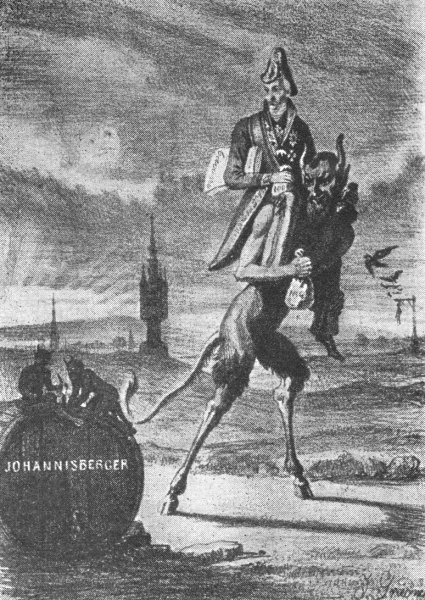 Devil bears Metternich. Caricature J. Grädner from 1848